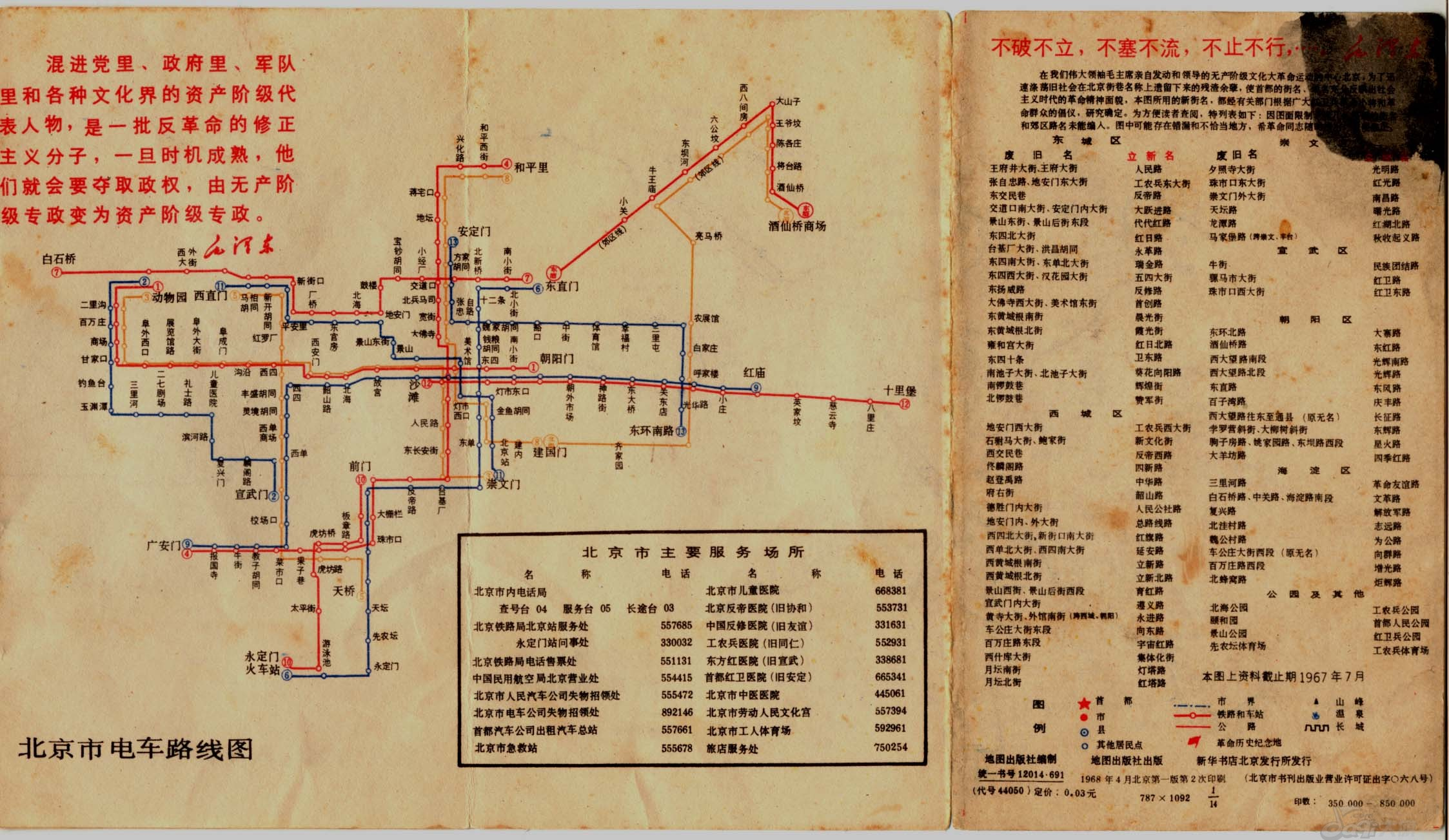 Map of Beijing 1968, back